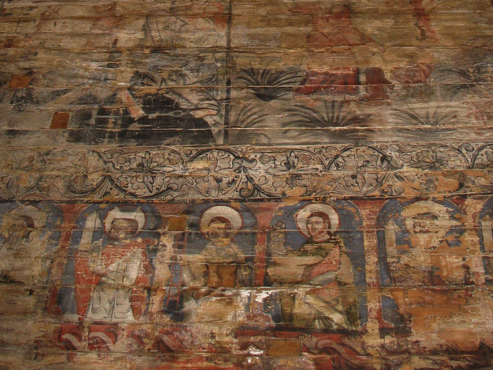 Radruż (Poland), Greek Catholic church